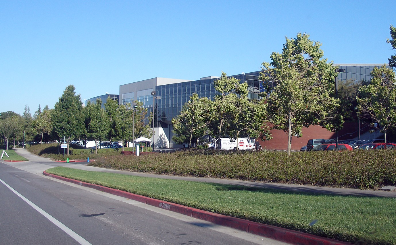 The north side of the Googleplex building in Mountain View, as seen from Amphitheatre Parkway.